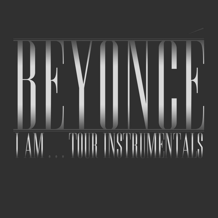 Cover of I Am... World Tour Instrumentals